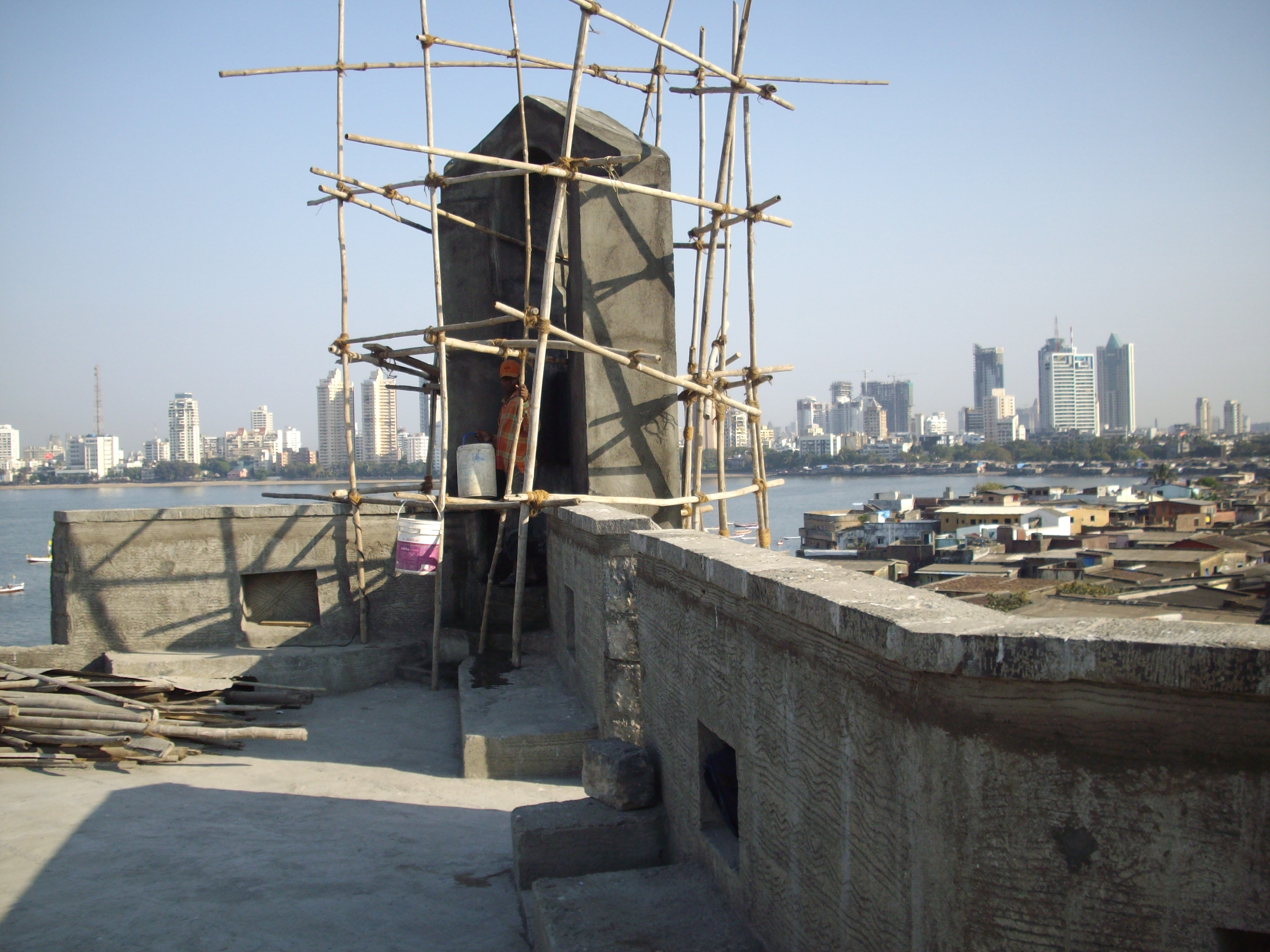 "Worli Fort" (Mumbai) receiving a architectural "FACE-LIFT" to preserve the fort from complete disintegration.(Wednesday 28-11-07)